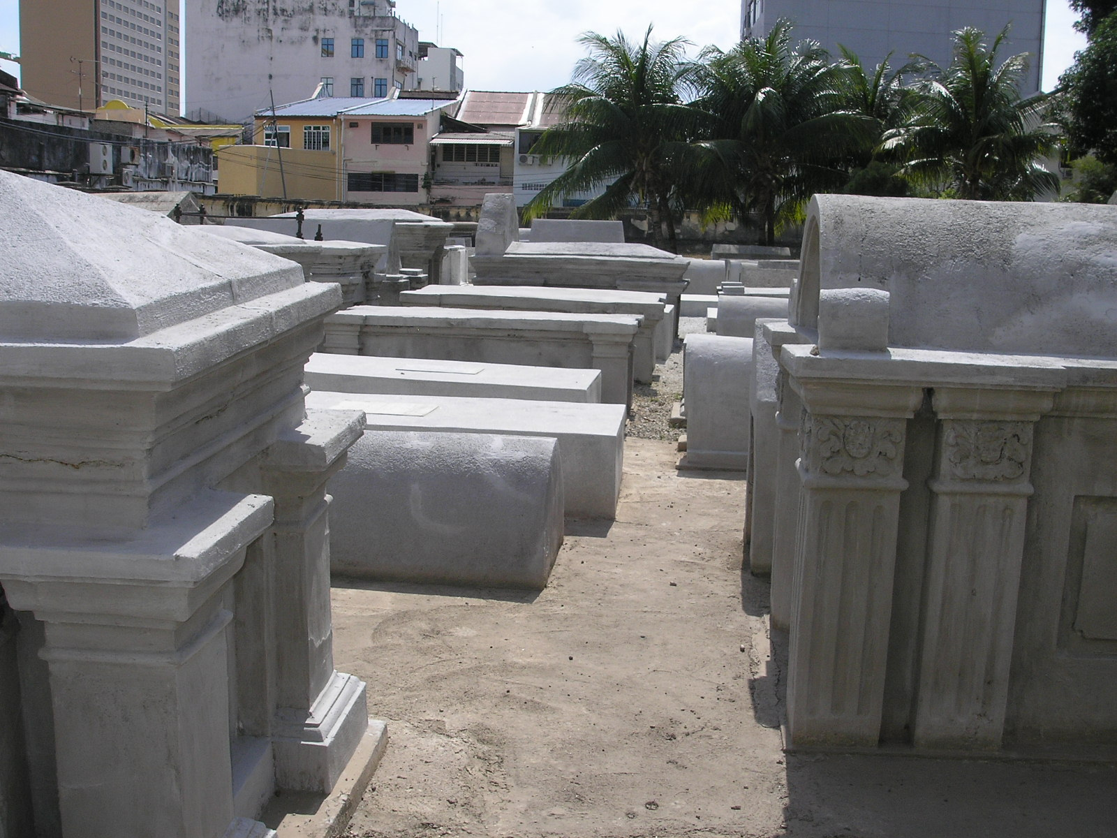 Image of the Jewish Cemetery in George Town, Penang. It is one of the oldest Jewish cemeteries in the Asian region.